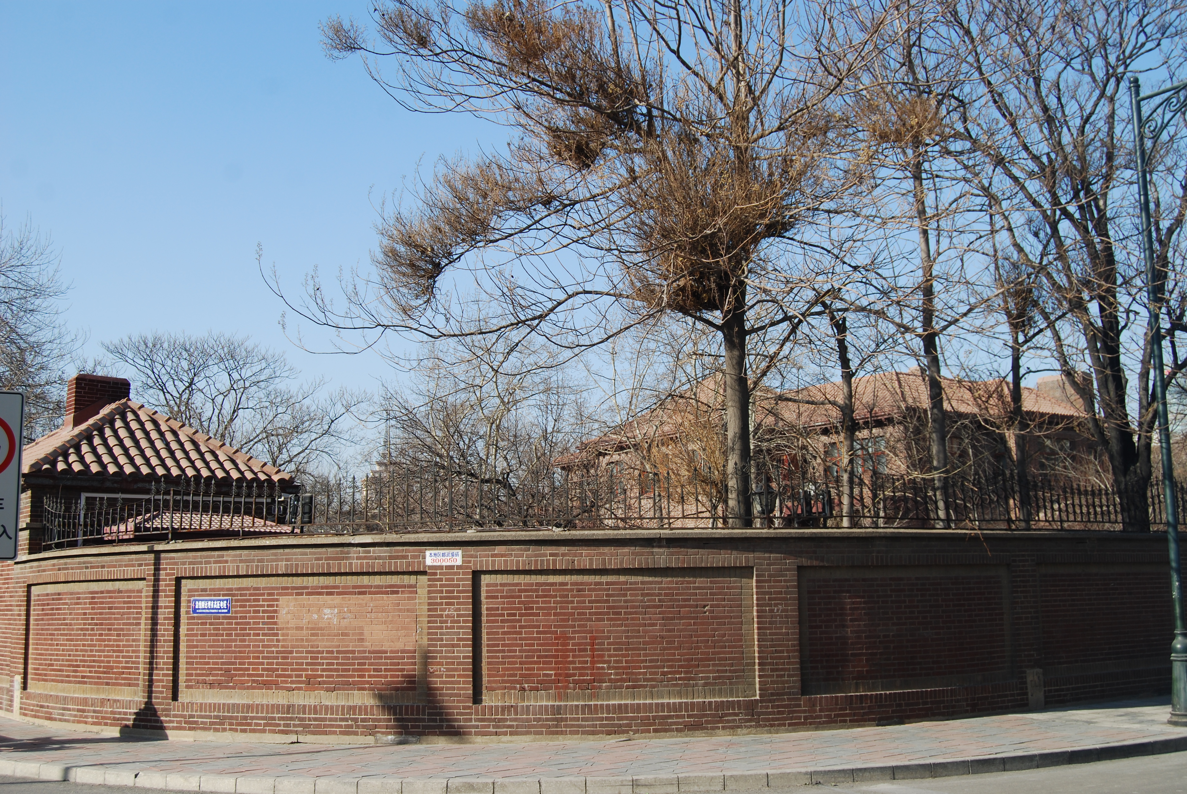 Former residence of Zhang Fuyun (张福运, 1890–1983) in Changde Dao No. 2, Heping District, Tianjin